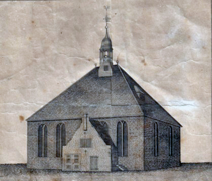 Illustration of First Dutch Reformed Church building, Albany, NY, USA, built in 1715 and replaced in 1789. It was demolished in 1806.